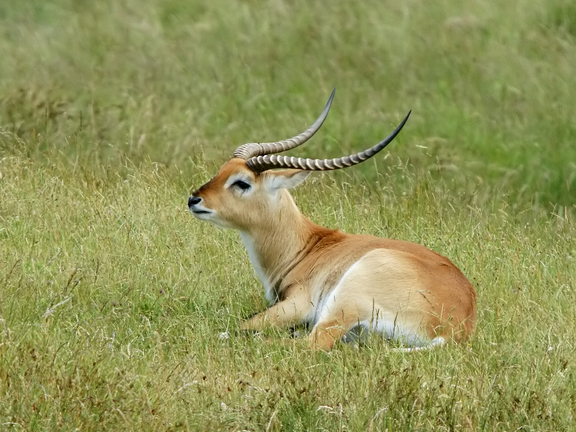 Male lechwe at Port Lympne Wild Animal Park, Kent, UK.